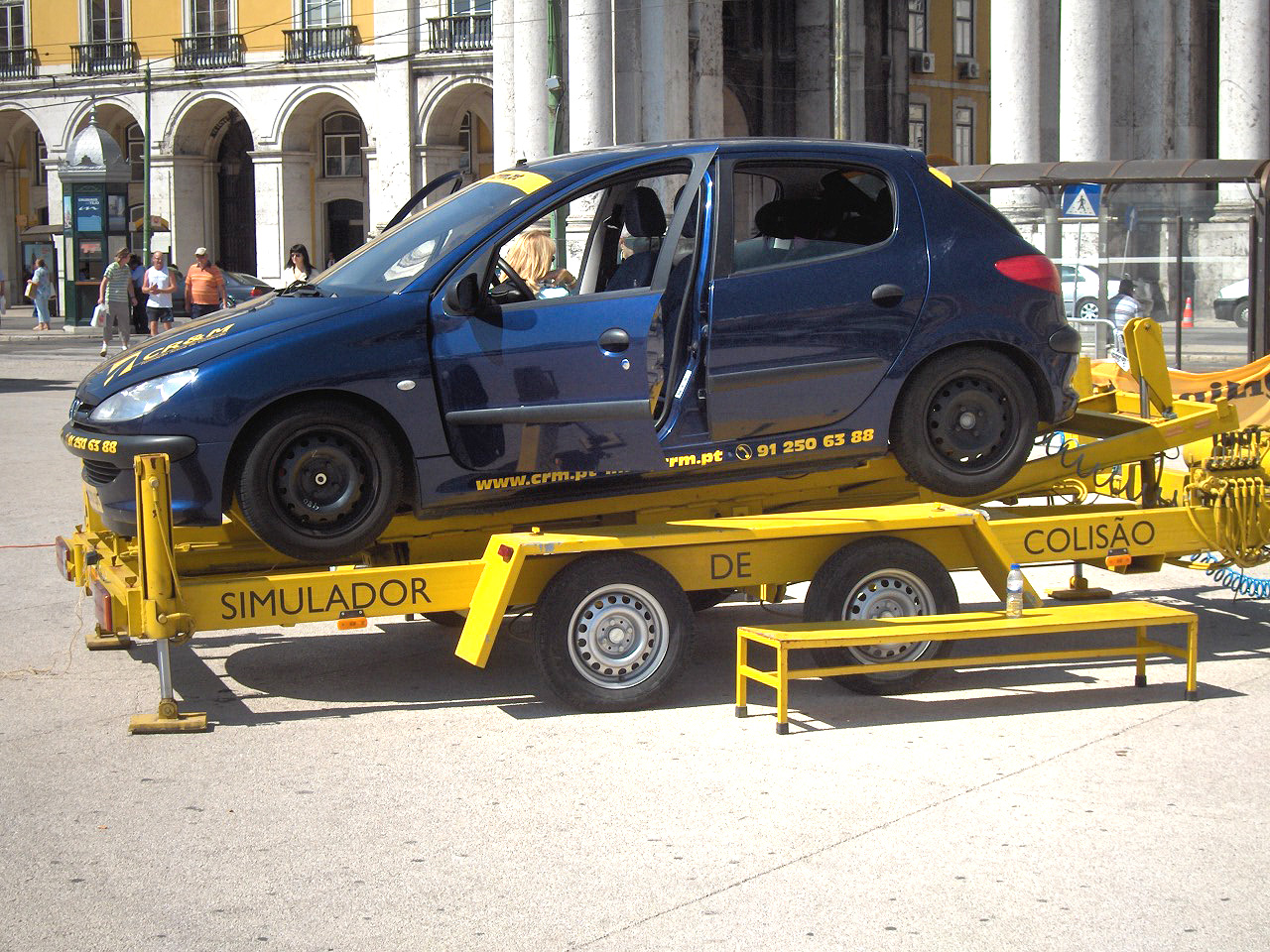 Crash simulator; Lisbon, Portugal